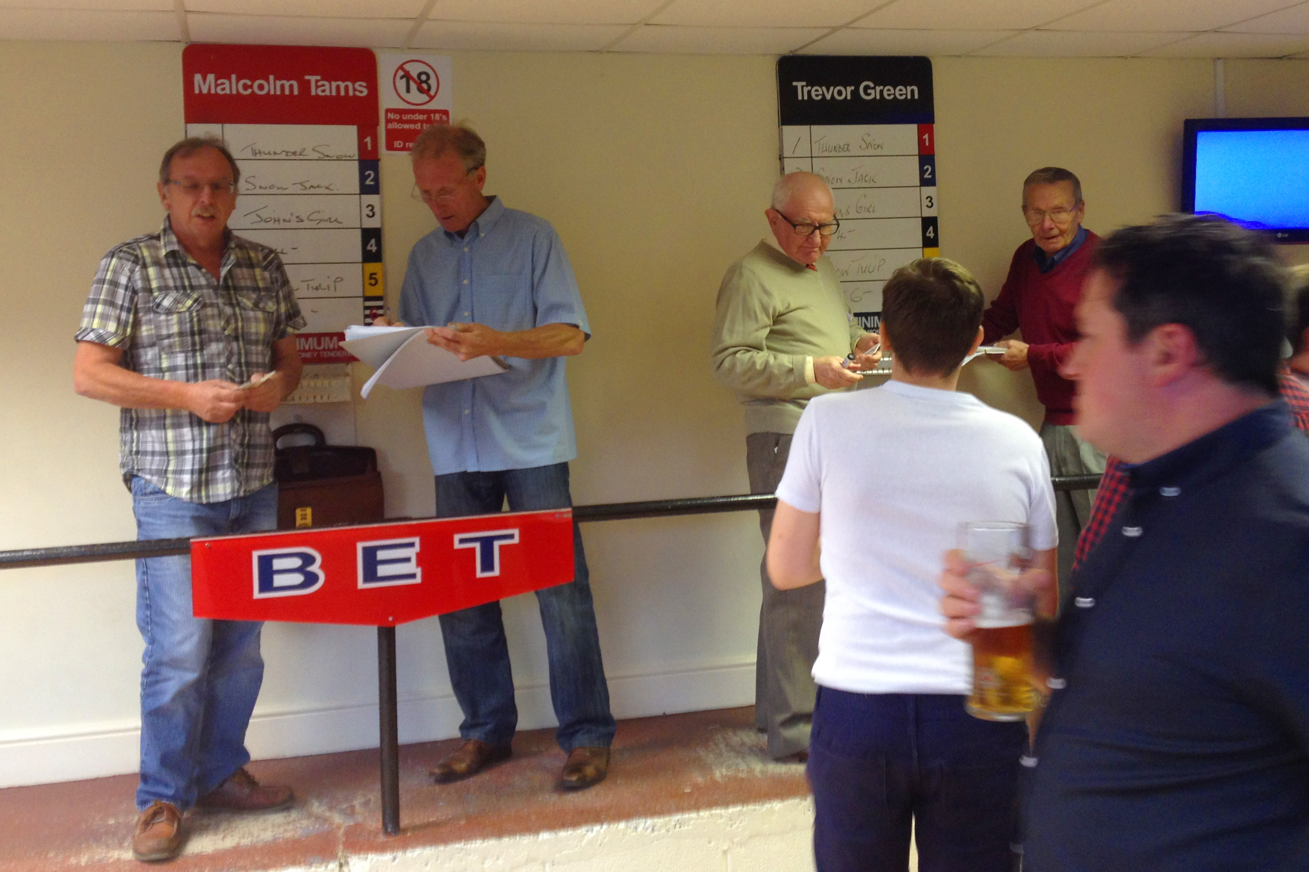 Bookmakers at the Valley Greyhound Stadium